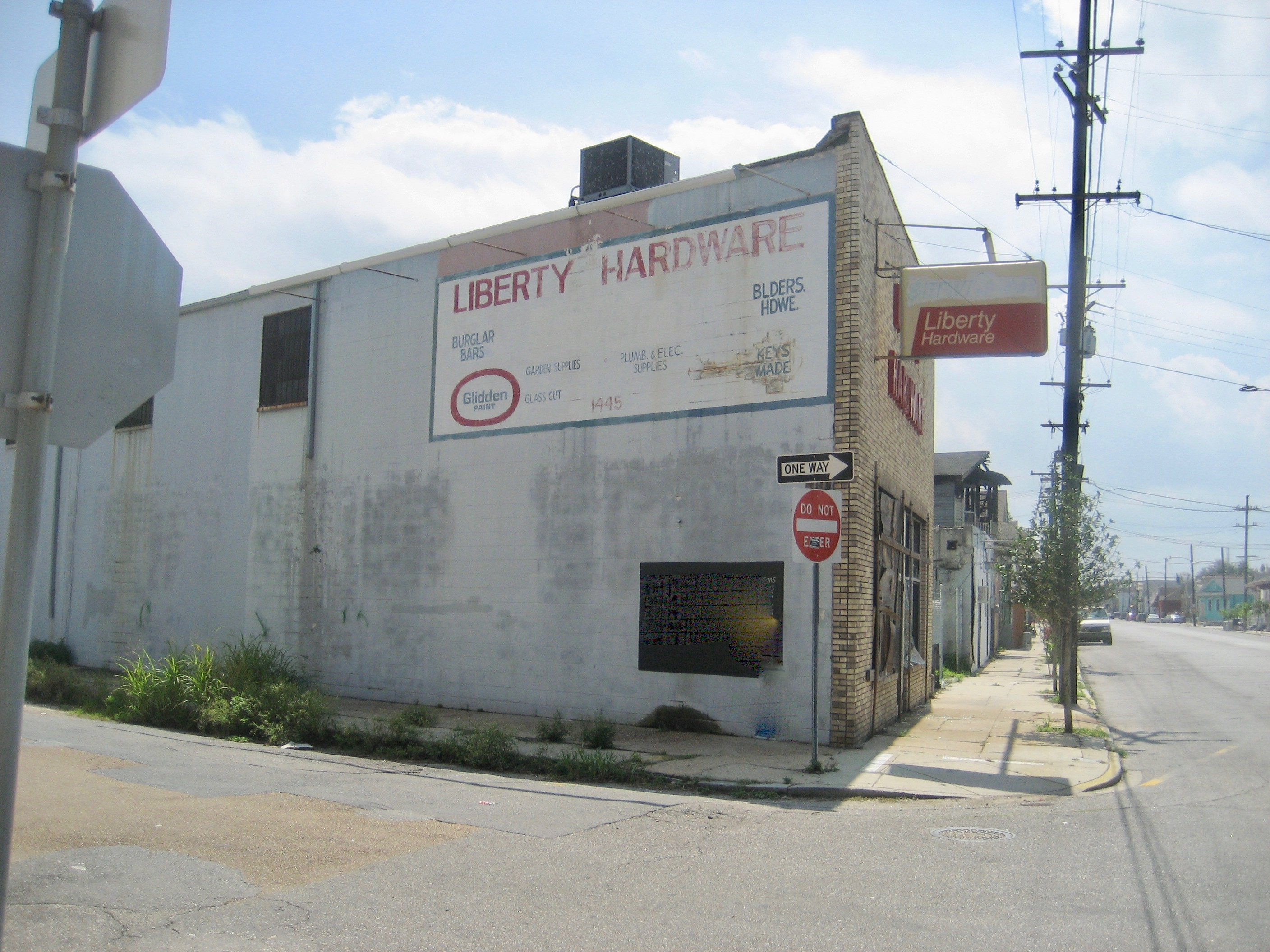 New Orleans: Liberty Hardware Store, closed and vacant since being flooded in the Hurricane Katrina levee failure disaster 3 years earlier.